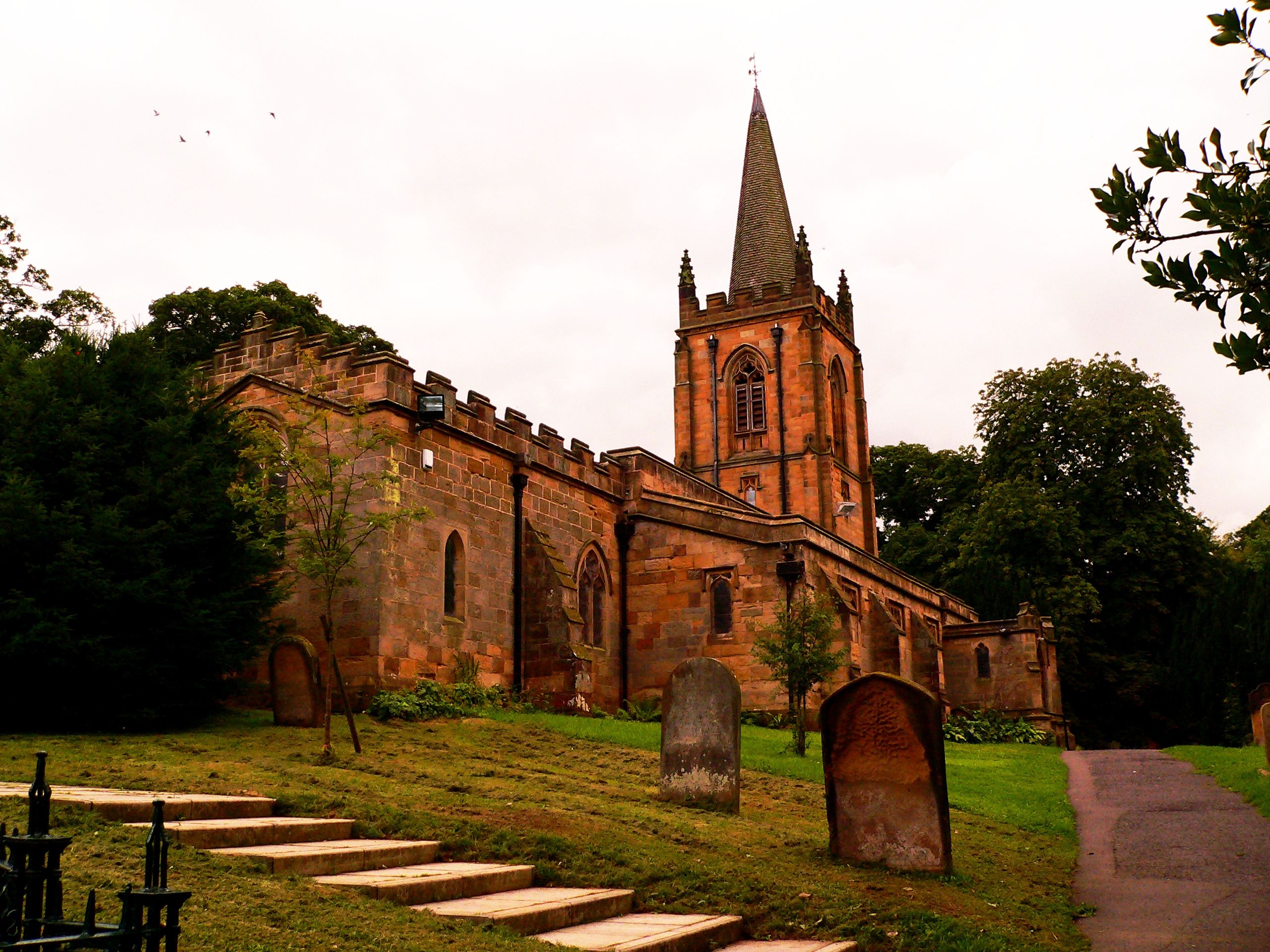 St Cuthbert's Anglican Church, Ormesby, Redcar and Cleveland